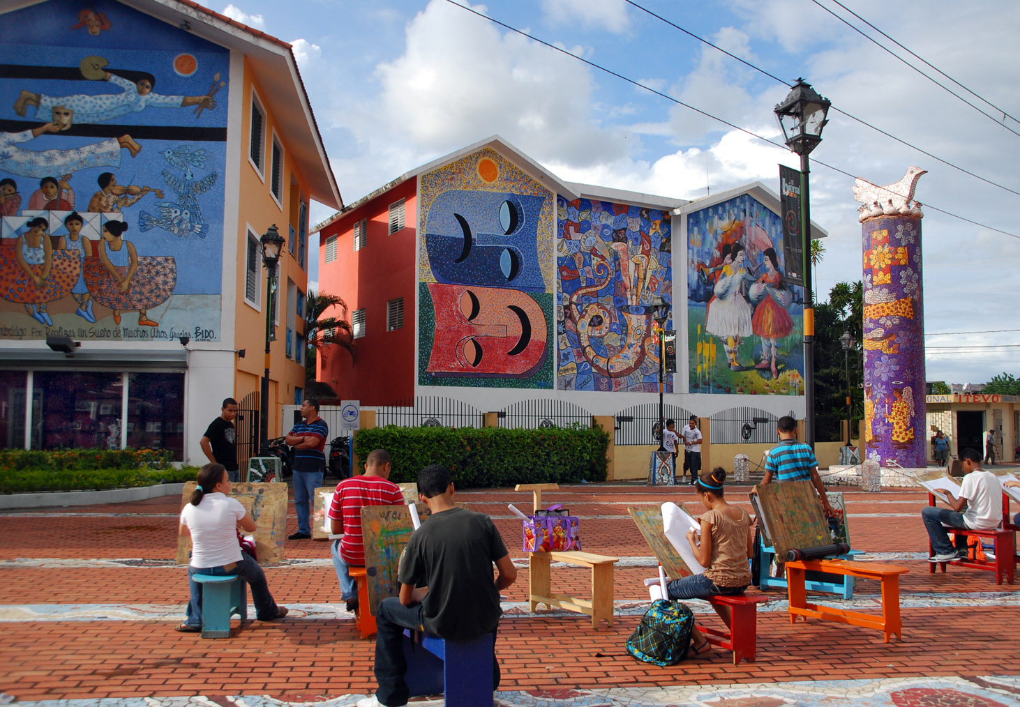 The picture displays the Plaza de la Cultura in Bonao facing towards the cultural centre. Some of the art students are sitting in front, ready to paint the plaza